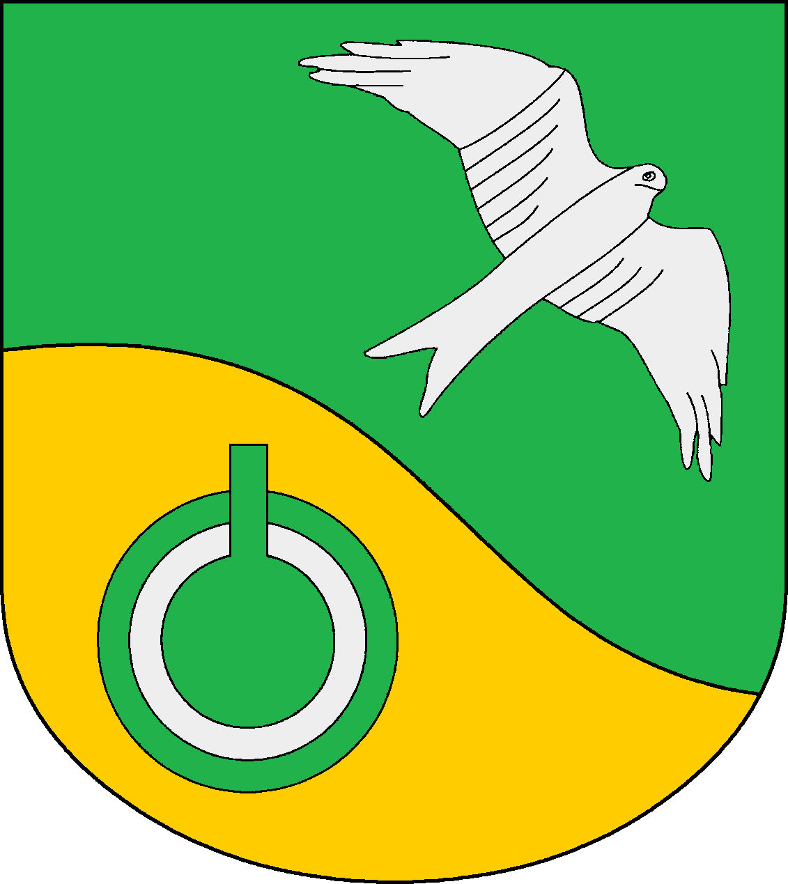 Coat of arms of the municipality Sirksfelde in Schleswig-Holstein, Germany.